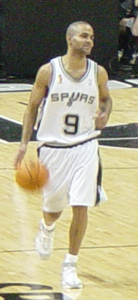 Basketball player Tony Parker during a game